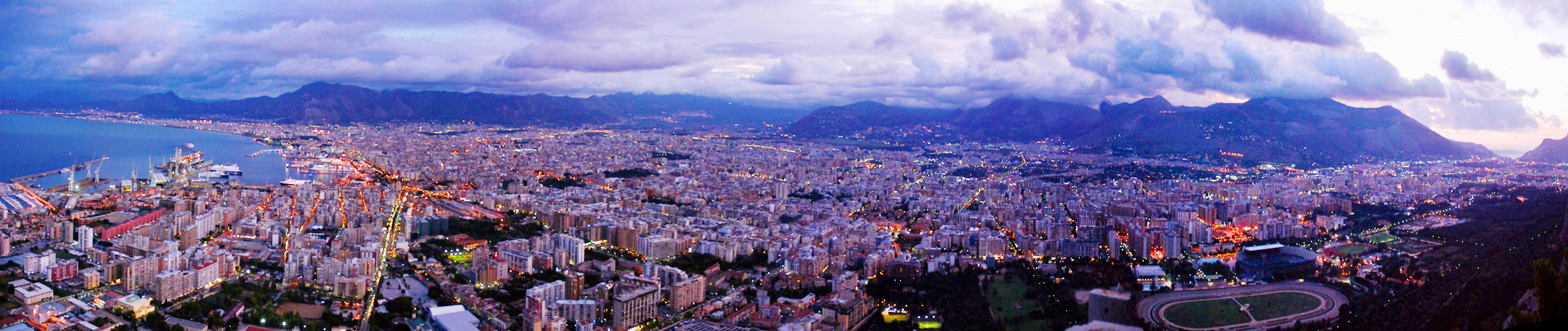 Panoramic view of Palermo from Utveggio castle on Mount Pellegrino.